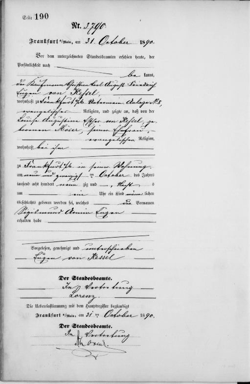 Birth Certificate of the intelligence agent Eugen von Kessel (1890-1934), who was murdered during the purge known as Night of the Long Knives on June 30 1934.